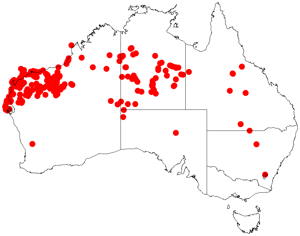 Acacia coriacea occurrence data from Australasian Virtual Herbarium downloaded from on 8 December 2018